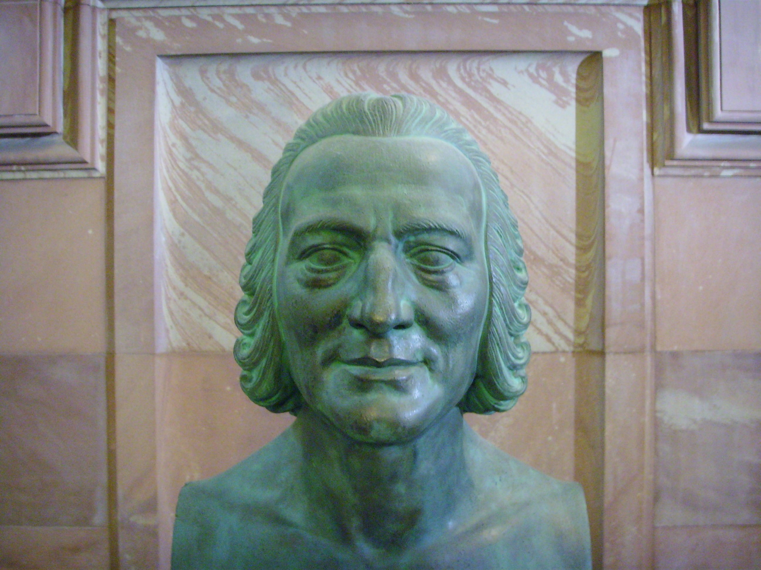 Bust of Johann Christian Senckenberg - sculptor Friedrich Christopf Hausmann (1860-1936) Correction: Sculptor appears to be Friedrich August von Nordheim (1813-1884); made 1863 Location: Frankfurt am Main (Germany), Foyer of Senckenberg-Museum Photographer: Gerbil November 2006